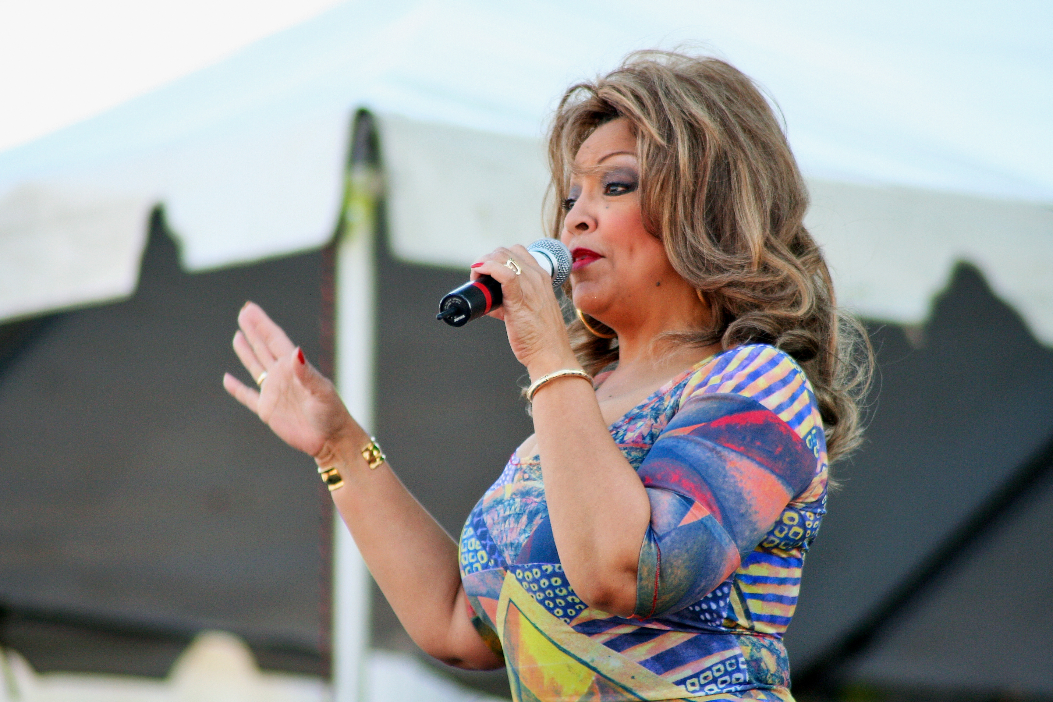 American singer Linda Clifford, at San Francisco Pride (2007-06-25)